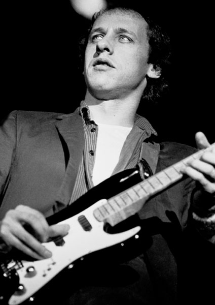 Mark Knopfler in concert performing with Dire Straits, National Stadium Dublin 1st January 1981. Photographer: Eddie Mallin